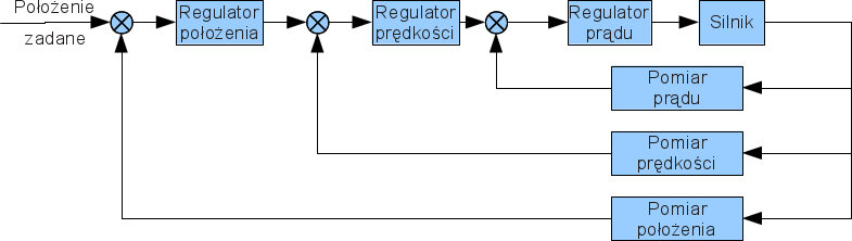 Block diagram of cascade control of servo